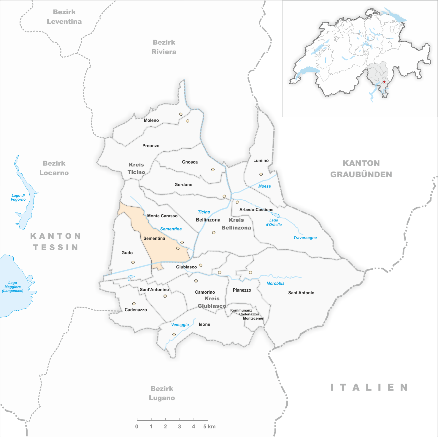 Municipality Sementina